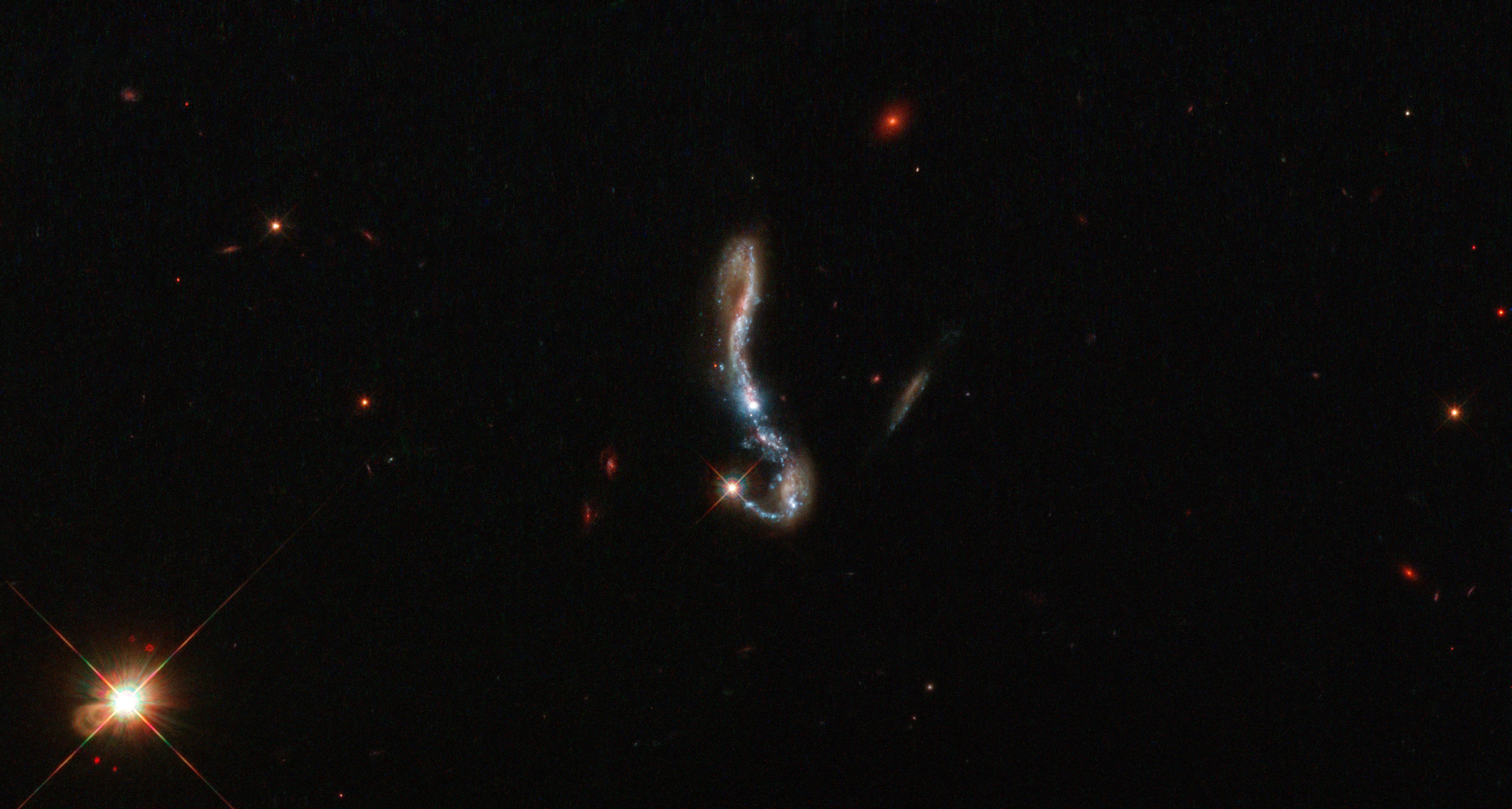 Visible as a small, sparkling hook in the dark sky, this beautiful object is known as J082354.96+280621.6, or J082354.96 for short. It is a starburst galaxy, so named because of the incredibly (and unusually) high rate of star formation occurring within it. One way in which astronomers probe the nature and structure of galaxies like this is by observing the behaviour of their dust and gas components; in particular, the Lyman-alpha emission. This occurs when electrons within a hydrogen atom fall from a higher energy level to a lower one, emitting light as they do so. This emission is interesting because this light leaves its host galaxy only after extensive scattering in the nearby gas — meaning that this light can be used as a pretty direct probe of what a galaxy is made up of. The study of this Lyman-alpha emission is common in very distant galaxies, but now a study named LARS (Lyman Alpha Reference Sample) [1] is investigating the same effect in galaxies that are closer by. Astronomers chose fourteen galaxies, including this one, and used spectroscopy and imaging to see what was happening within them. They found that these Lyman-alpha photons can travel much further if a galaxy has less dust — meaning that we can use this emission to infer how dusty the source galaxy is. The LARS study relies heavily on the high resolving power of Hubble. When Hubble is decommissioned, no telescope will be able to make observations like this in the far ultraviolet part of the spectrum — meaning that small, glittering galaxies imaged and probed by studies like LARS may give us some of the most detailed data we have to work with for some time to come.